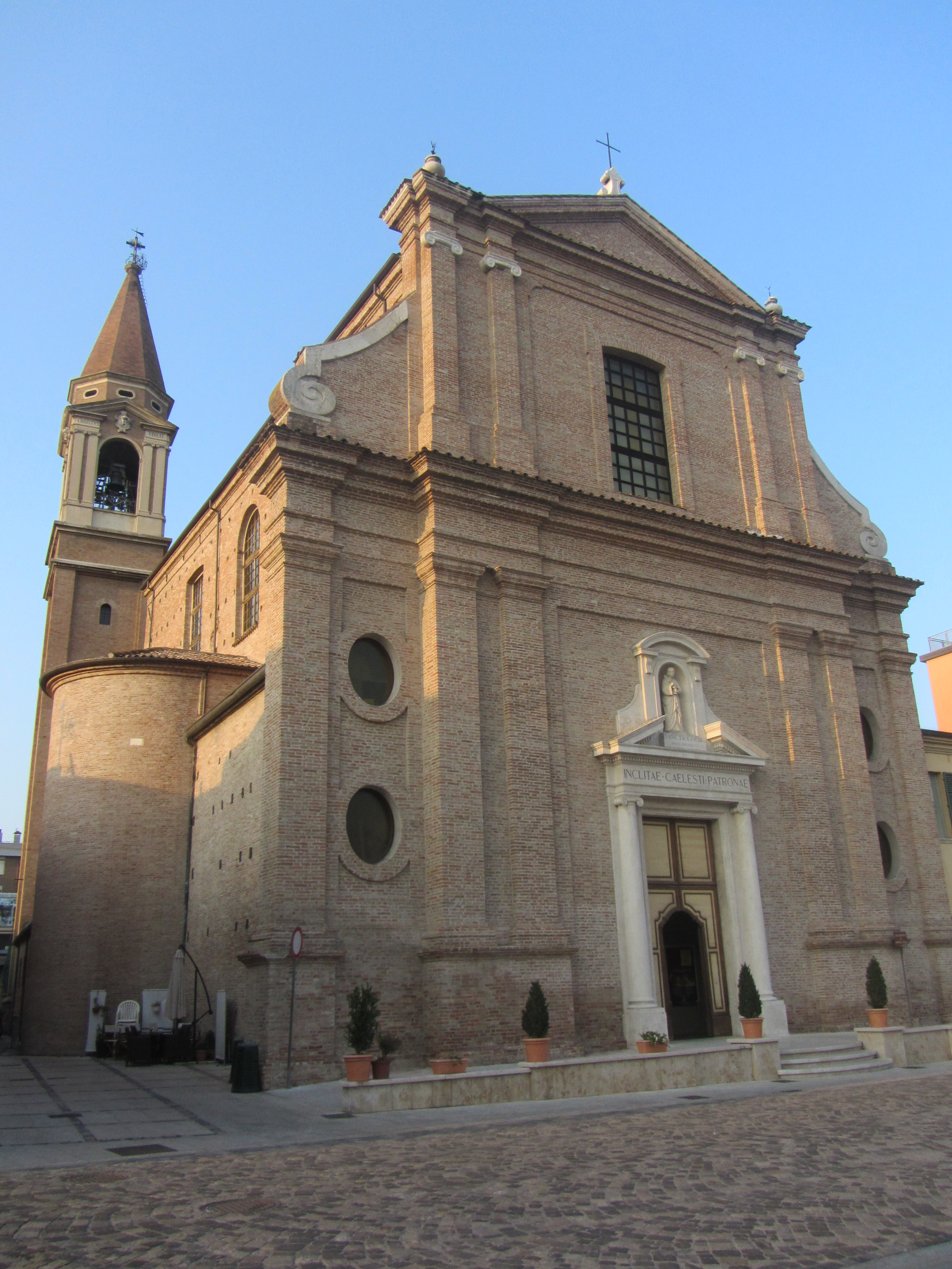 Savignano sul Rubicone, Chiesa Insigne Collegiata di Santa Lucia